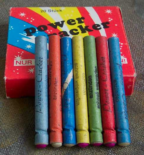 good old crackers from GDRBân-lâm-gú: 以早叫做水鴛鴦的炮仔。